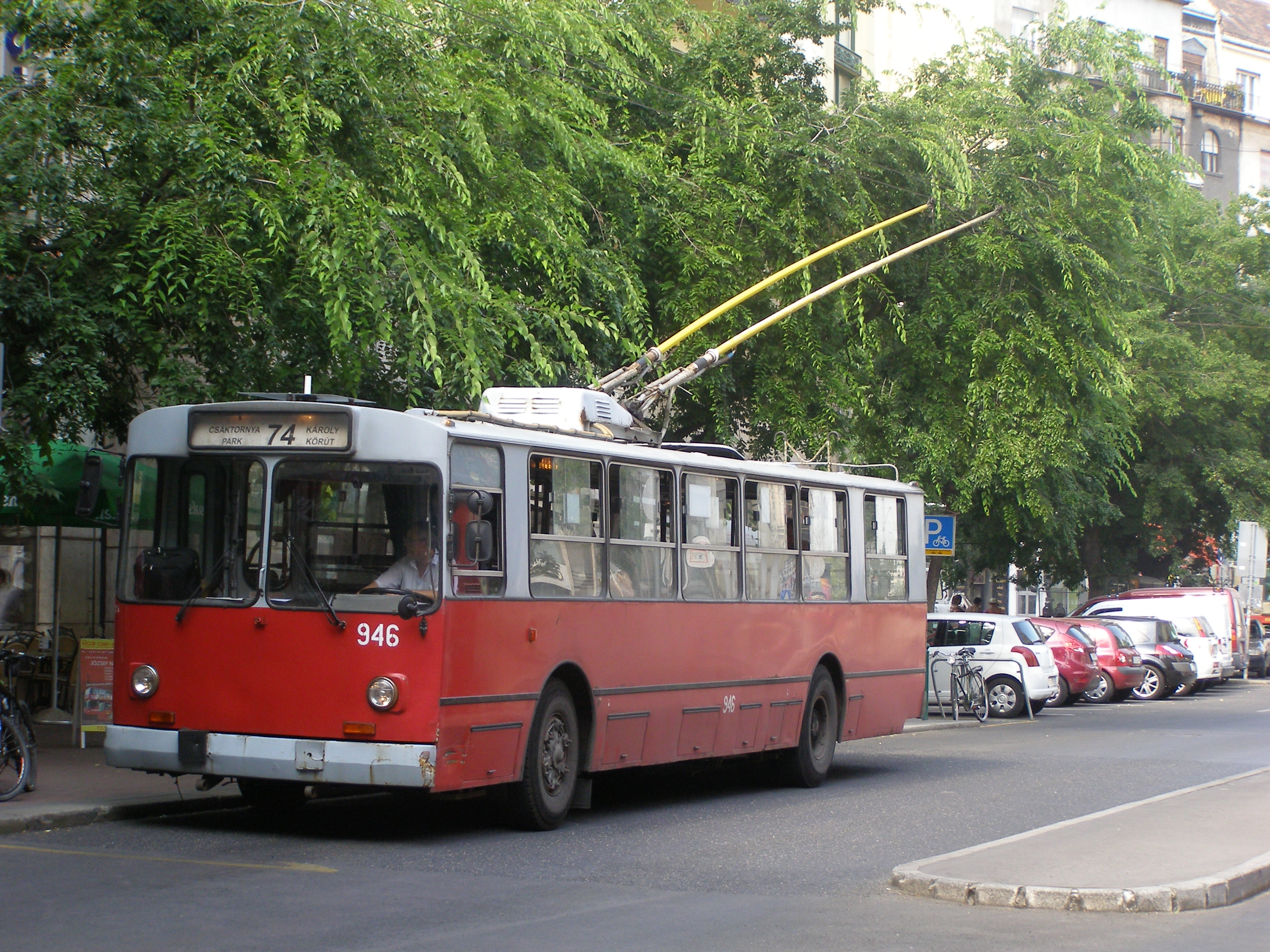 Budapest - ZIU-9V trolleybus #946 on line No. 94 in front of the Great Synagogue